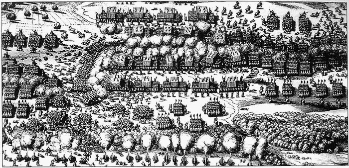 contemporary drawing of the Battle of Breitenfeld (1631)